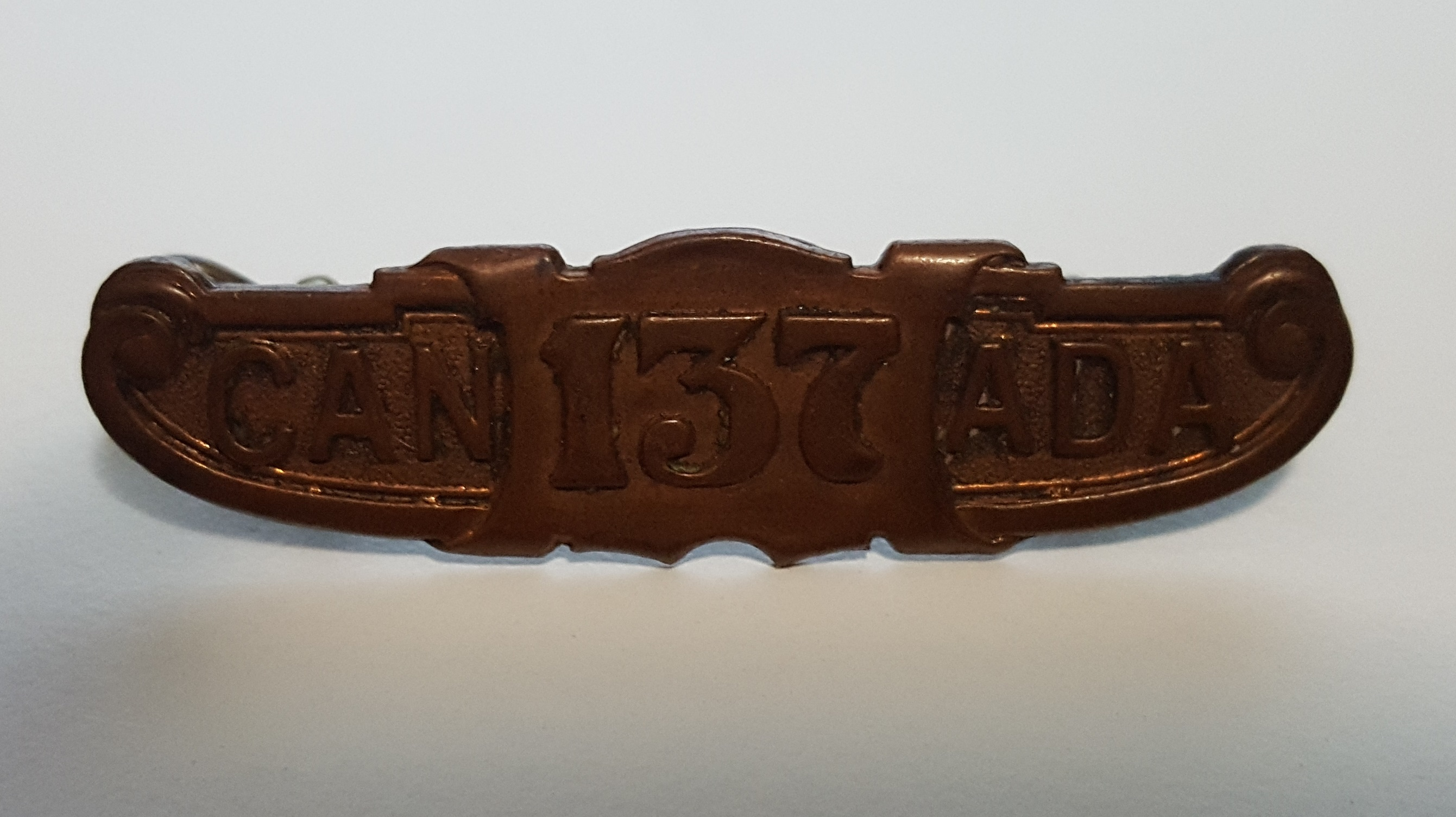 Metal shoulder title worn by soldiers of the battalion on each shoulder strap.